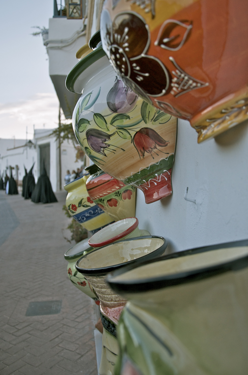 Semana Santa procession in Níjar also showing a ceramics shop.